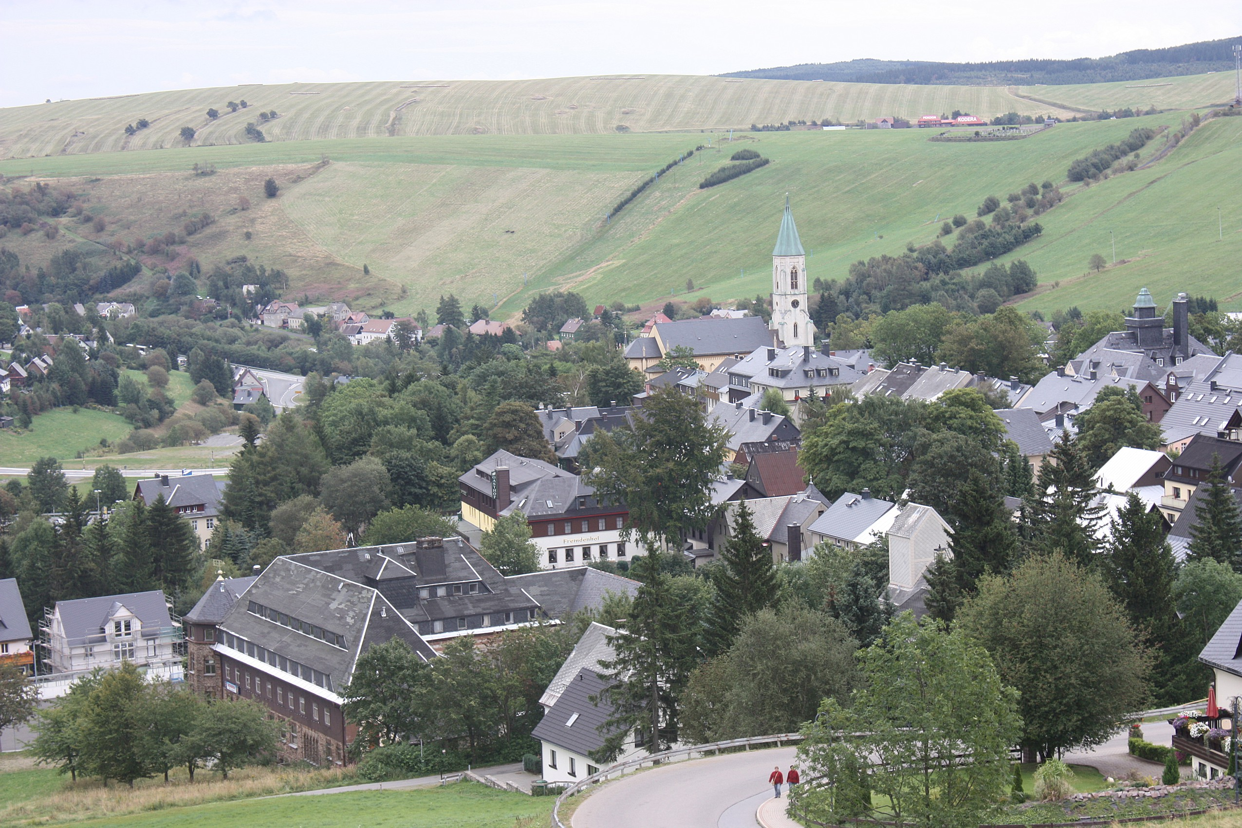 Oberwiesenthal, view to the Martin Luther church